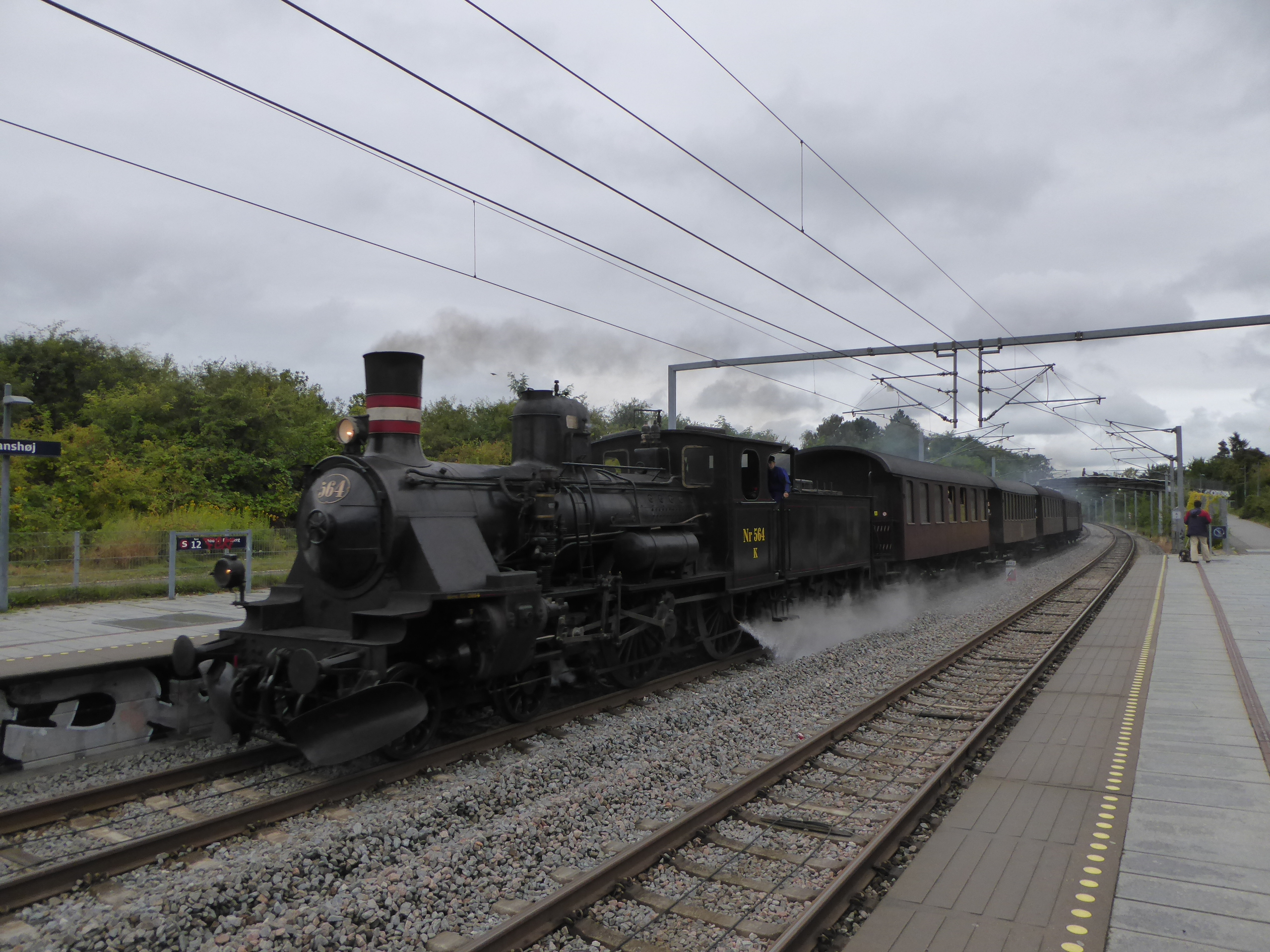 Heritage train of Vestsjællands Veterantog during Rundt om husene (Around the houses) at Danshøj Station in Copenhagen.